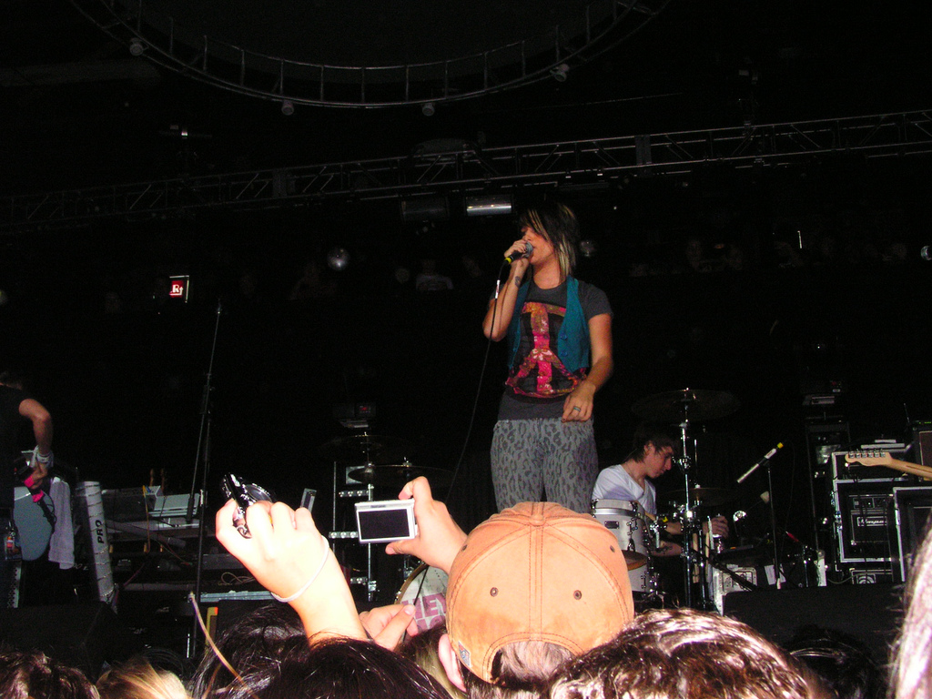 Cassade Pope